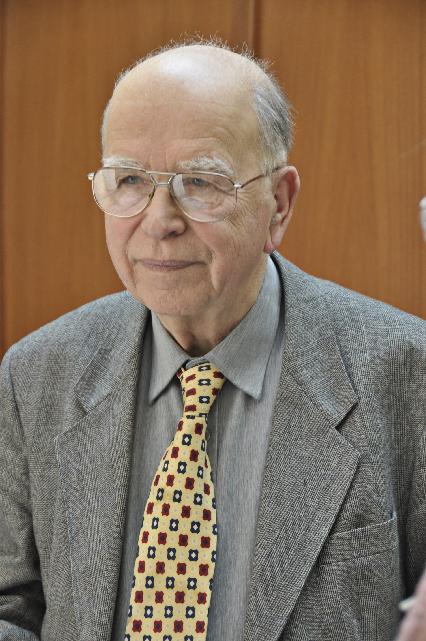 Professor, doctor Iván Almár, Konkoly Observatory of the Hungarian Academy of Sciences